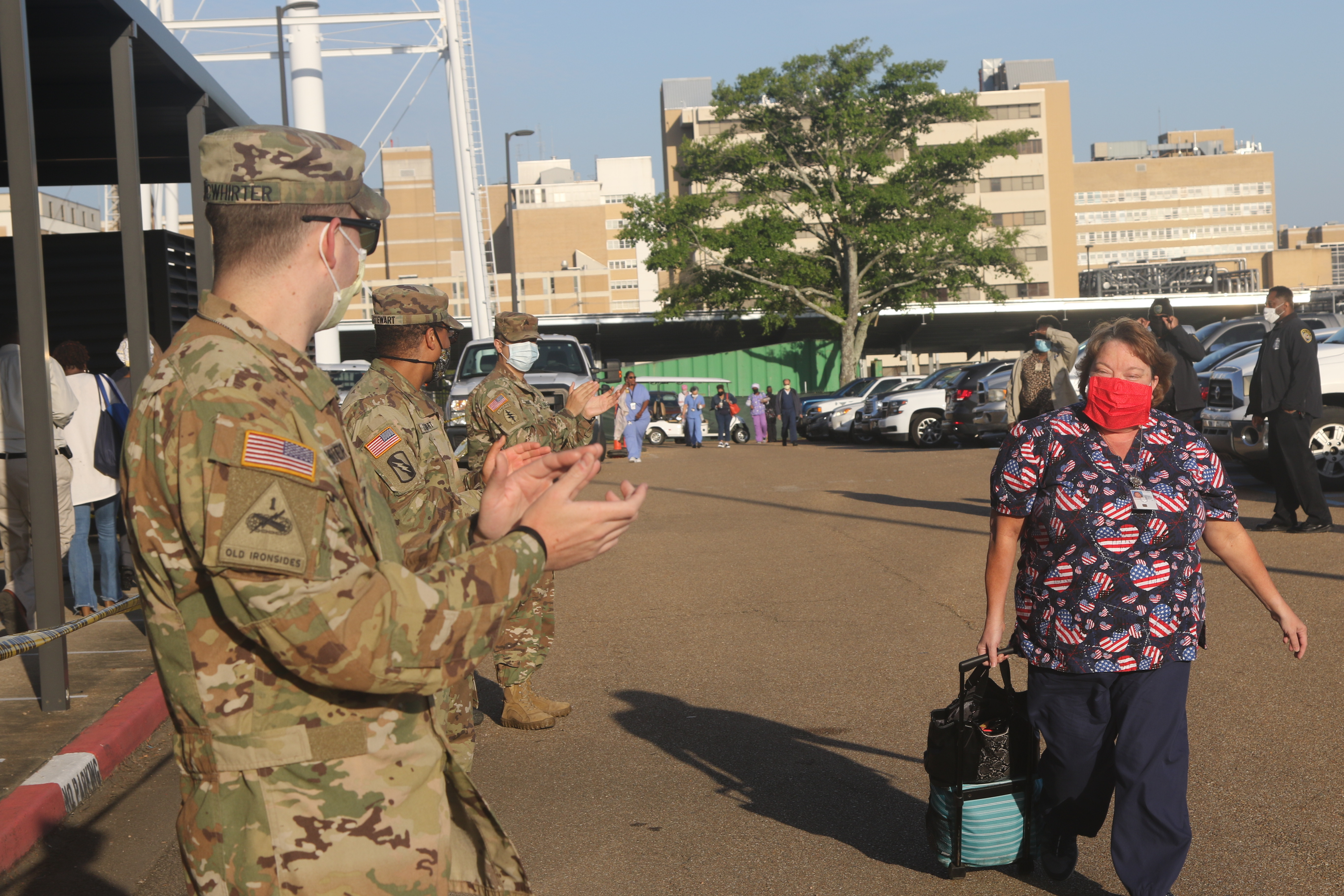 Soldiers and Airmen of the Mississippi National Guard gather at the employee entrance to the G.V. (Sonny) Montgomery Veteran Affairs Medical Center to honor civilian healthcare workers during National Nurses Week in Jackson, Miss., May 12, 2020. On the last day of Nurse’s week and the anniversary of G.V. (Sonny) Montgomery’s passing, Guardsmen cheered for VA employees as they entered and exited the hospital during morning shift change and thanked them for their work during the COVID-19 pandemic. (U.S. Army National Guard photo by Spc. Christopher M. Shannon II)